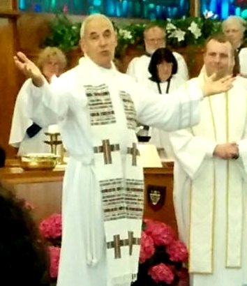 The Right Reverend Gary Paterson, 41st Moderator of the United Church of Canada, delivers the Blessing and Benediction at the end of Easter Morning service at Port Nelson United Church, Burlington, Ontario, Canada on 20 April 2014.